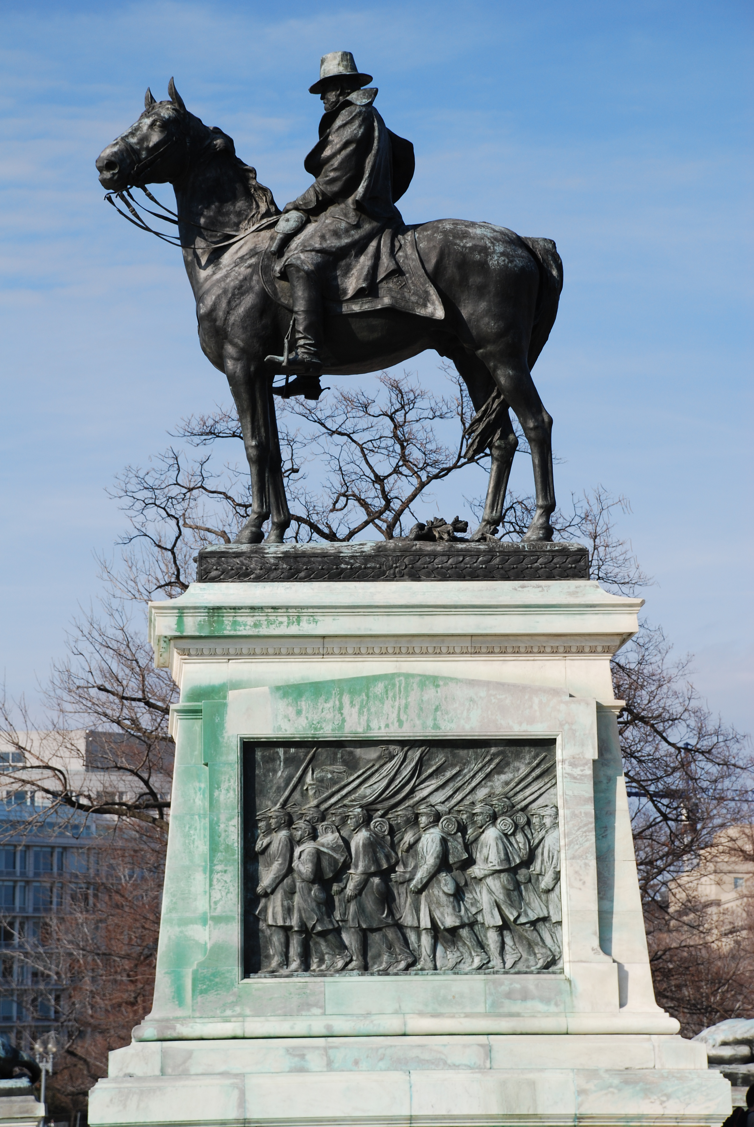 Monument of Grant, by Henry Shrady, on the National Mall